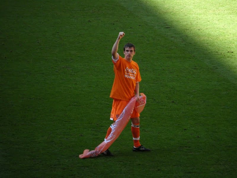 Seamus Coleman playing for Blackpool FC